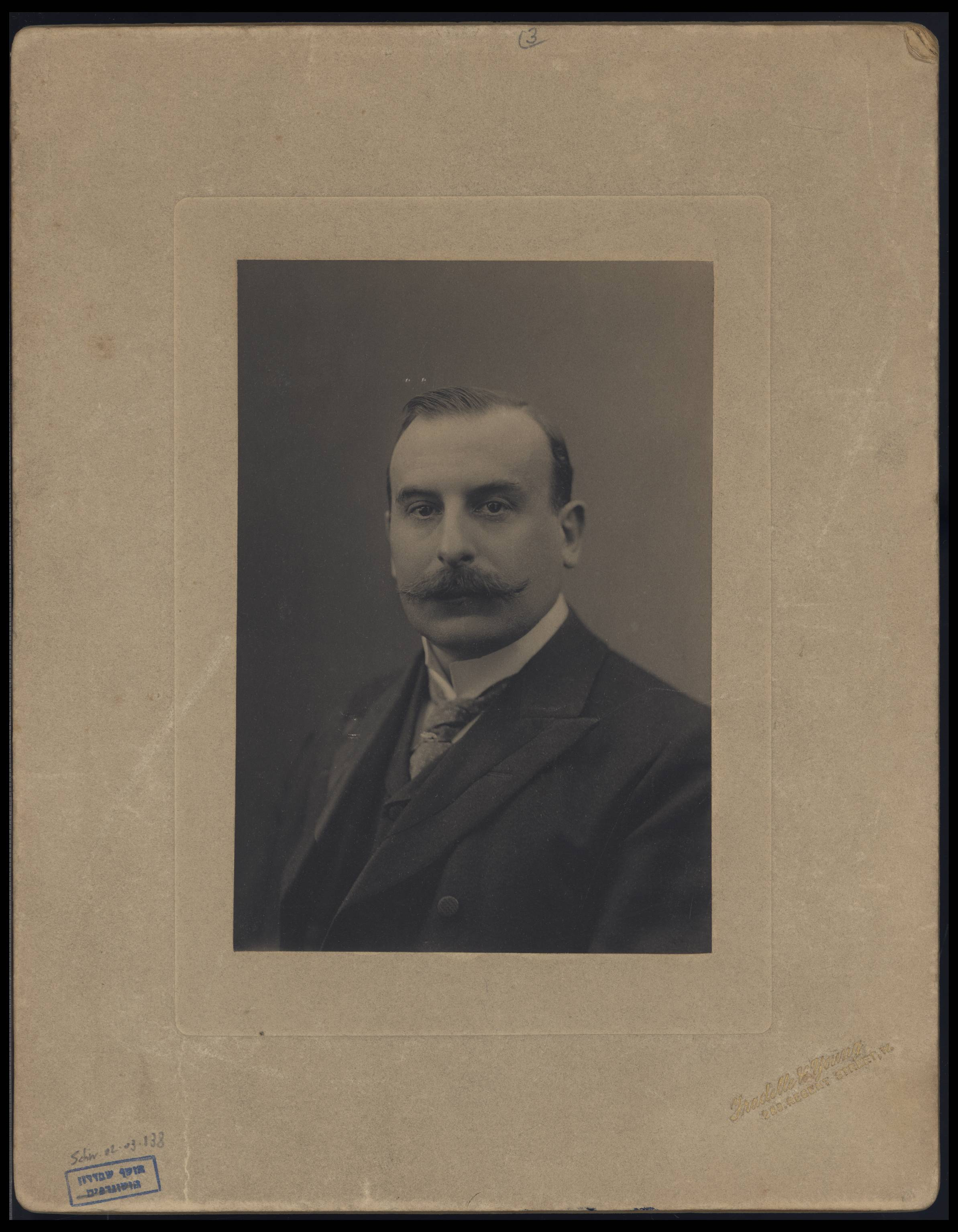 picture of Leopold Greenberg